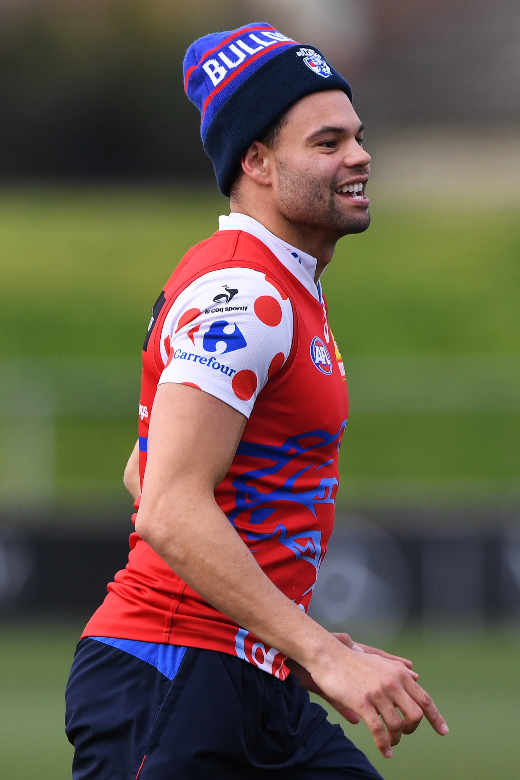 Jason Johannisen of the Western Bulldogs during Western Bulldogs training on 7 August 2018 at Whitten Oval in Melbourne, Victoria.